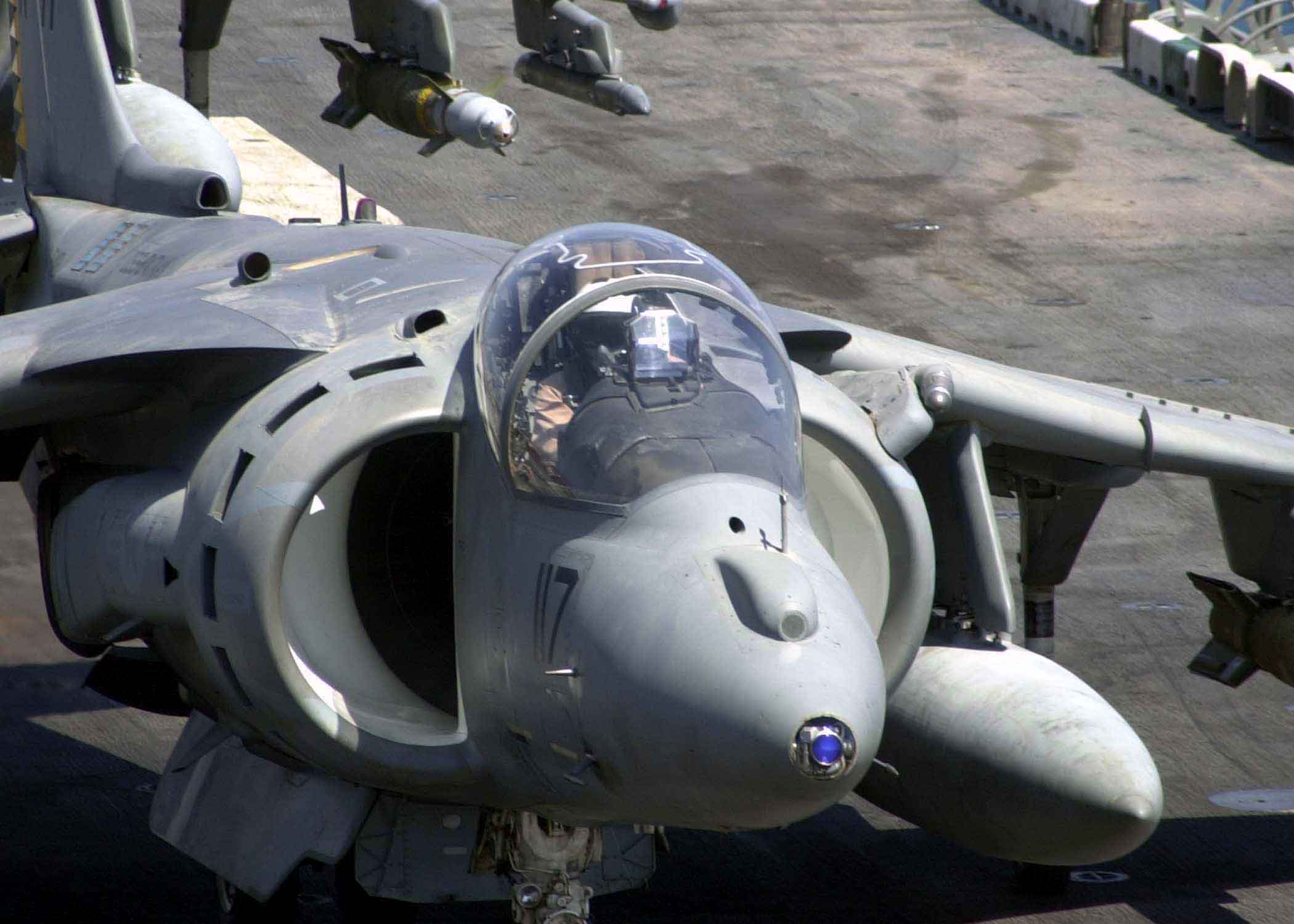 The Arabian Gulf (Mar. 18, 2003) -- An AV-8 Harrier pilot waits patiently for the "thumbs up" before taking off on his next mission from the flight deck of the USS Bataan (LHD 5) in support of Operation Iraqi Freedom. Operation Iraqi Freedom is the multi-national coalition effort to liberate the Iraqi people, eliminate Iraq’s weapons of mass destruction, and end the regime of Saddam Hussein. U.S. Navy photo by Photographer’s Mate 3rd John Taucher. (RELEASED)